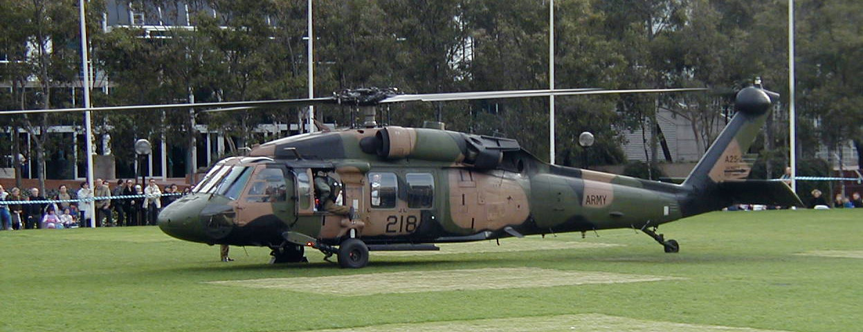 Australian Army UH-60 Blackhawk. The Helicopter was on display at Darling Harbour, Sydney, New South Wales.